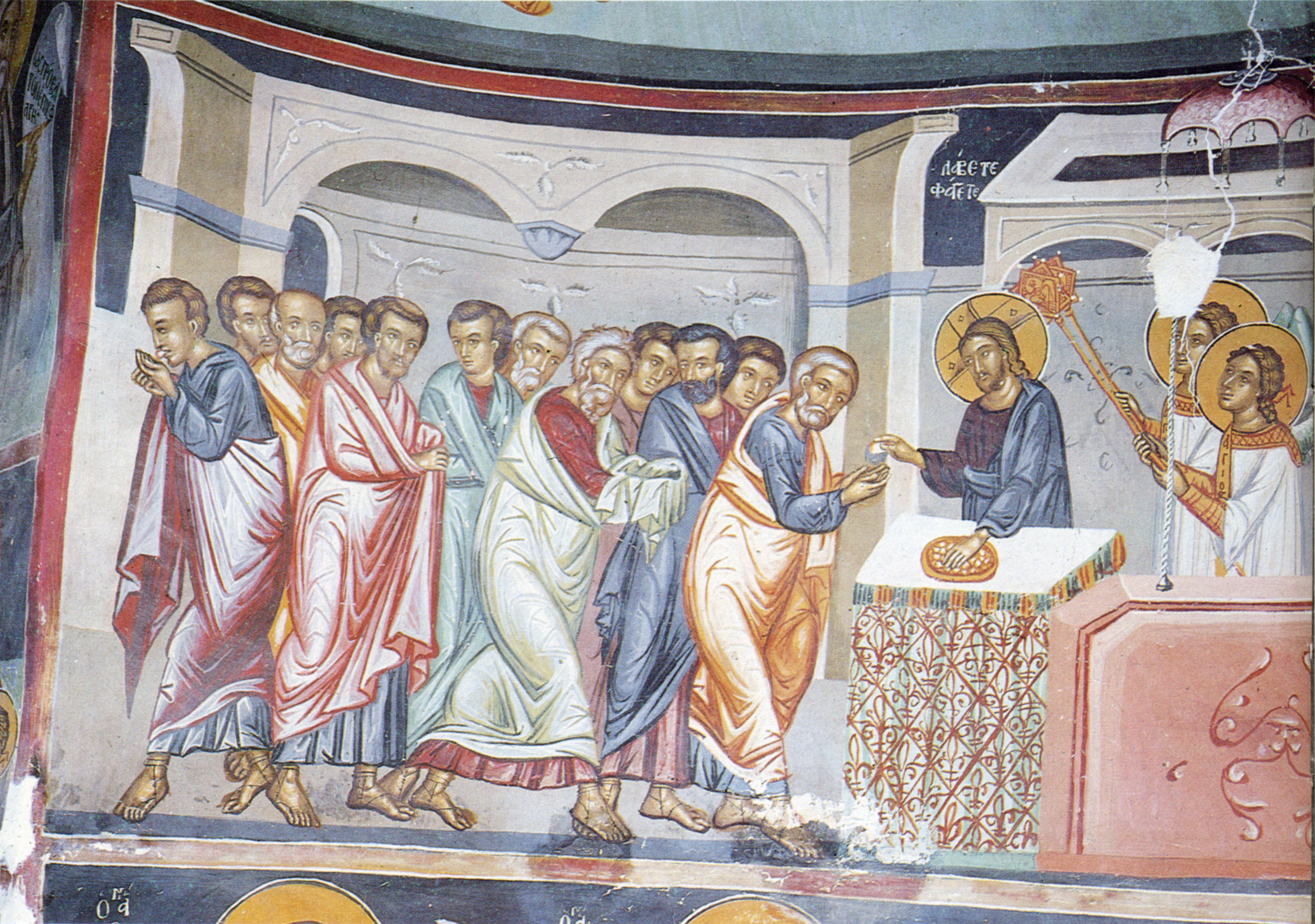 Fresko Communion of Apostles, left-hand part, in Soteros Church in Palaichorio, Cyprus